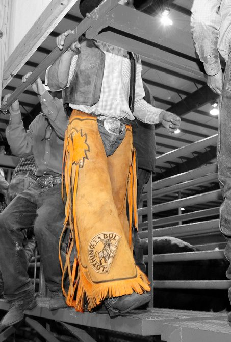 Chaps traditionally were worn by cow herding cowboys to avoid rope burns or damage to their clothing while working on horseback, and are today mostly worn at the rodeo as protection from the trampling of a bull and to add design or flair to the sport. Davie Rodeo, Davie, Fl., USA